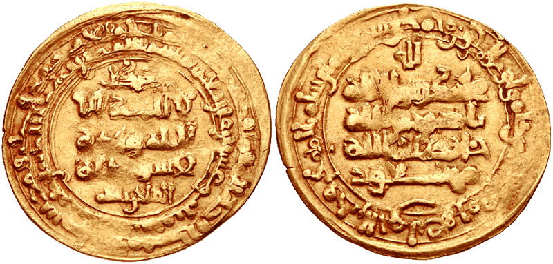 Coin of the Ghaznavid Sultan Mas'ud I. AH 421-432 / AD 1031–1041. AV Dinar (25mm, 4.15 g, 7h). Nishapur mint. Dated AH 423 (AD 1011/2). Album 1618. VF.